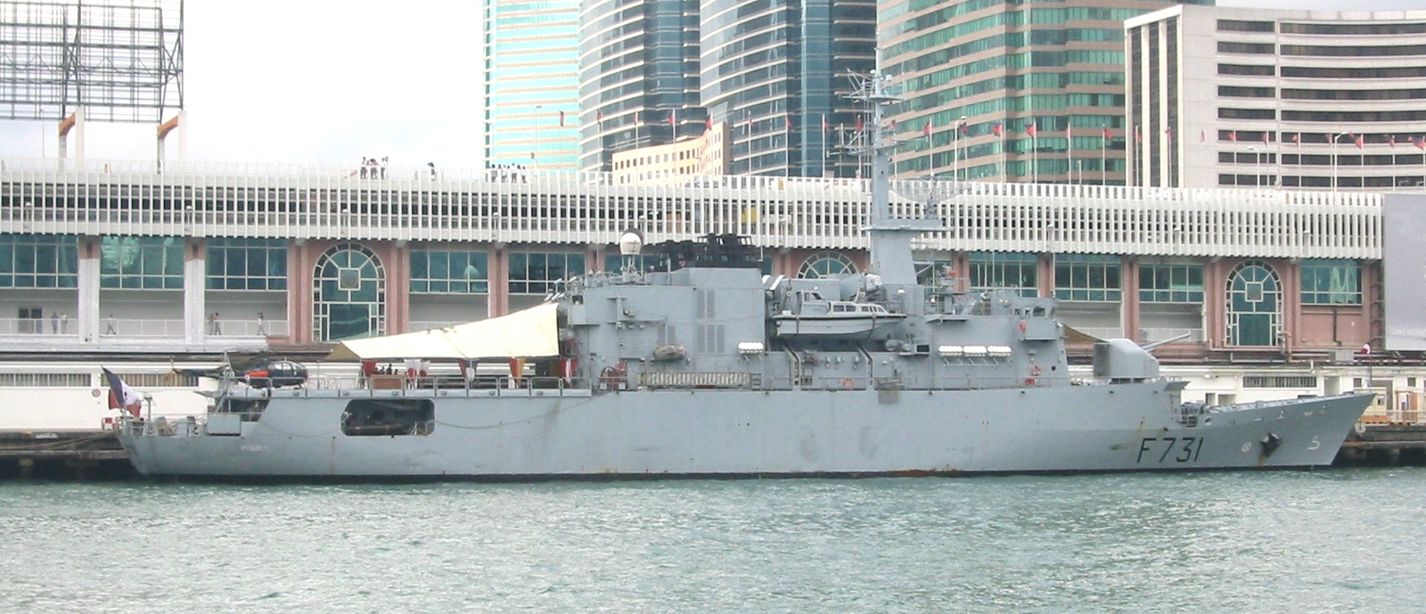 French frigate Prairial in Hong Kong harbour (April 2006). Personal photograph.